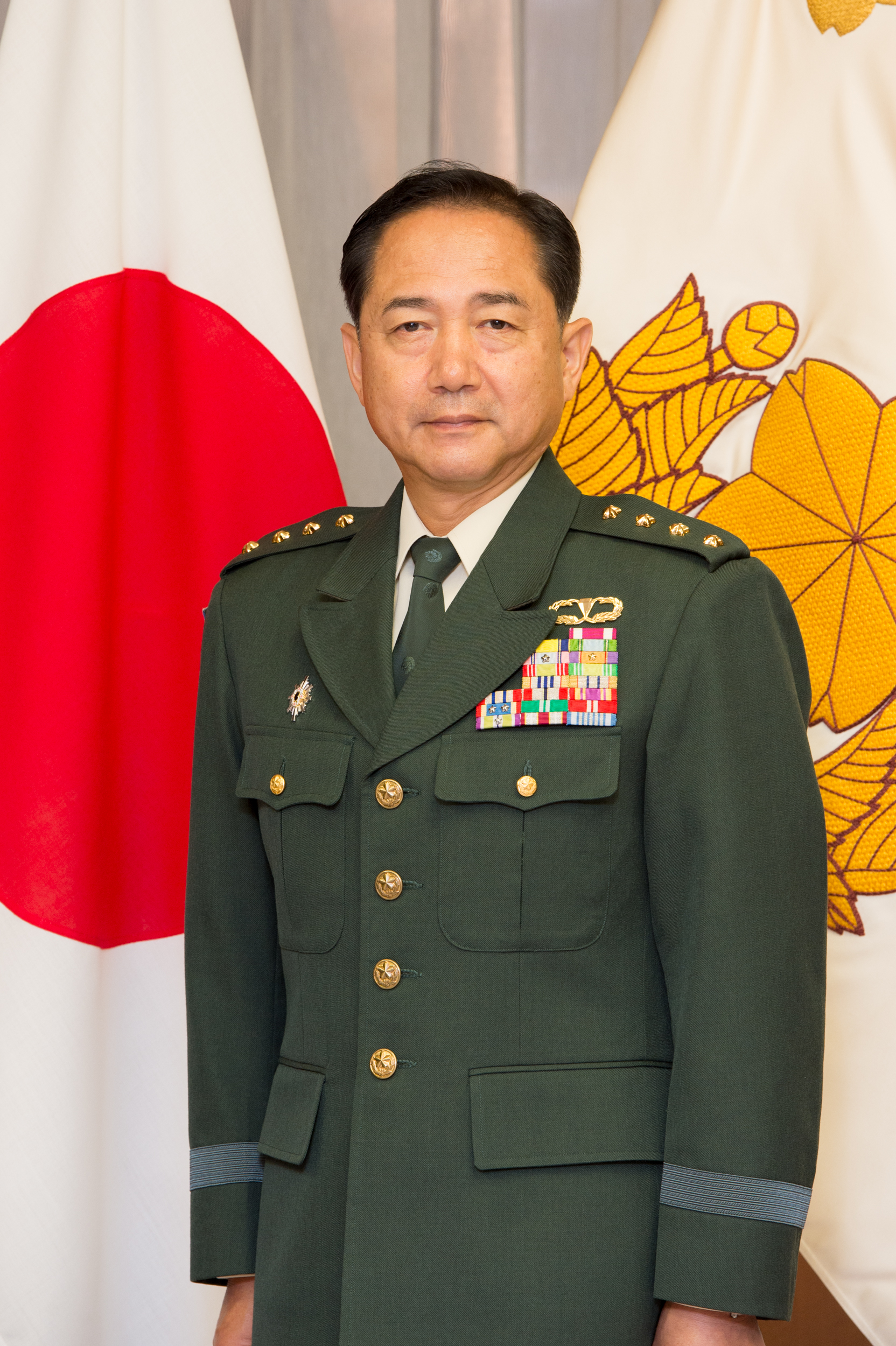 Japan Ground Self-Defense Force Gen. Koji Yamazaki, 36th Chief of Staff, JGSDF.